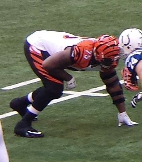 Devon Still with the Bengals against the Colts in 2014.